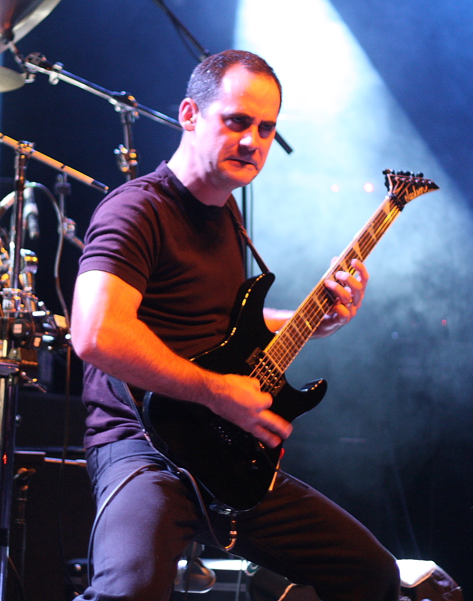 Jason Mendonca of british band Akercocke at Damnation festival 2009